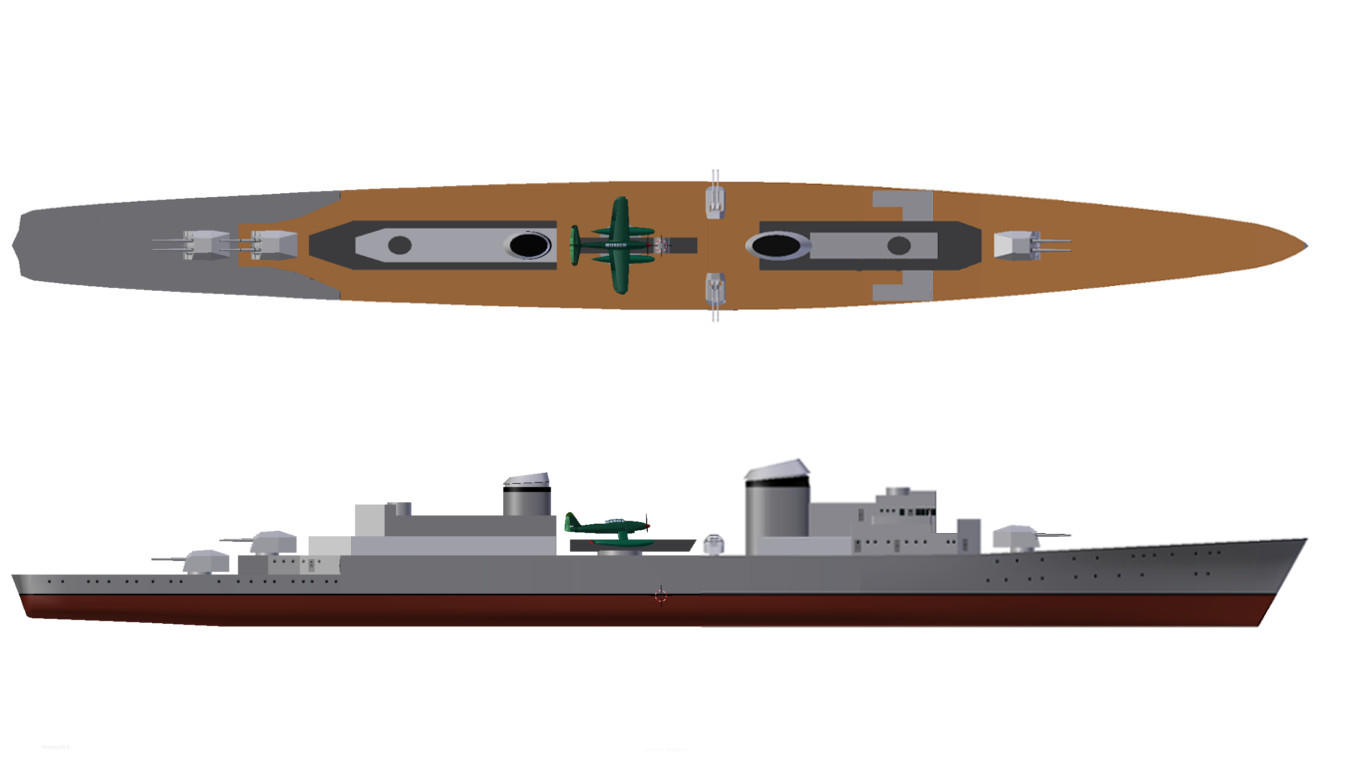 This is a 2D profile line illustration of the Spahkreuzer design that Germany had planned to build as part of, and along side of the Plan Z naval ship building program to augment their Navy before, and during World War 2.